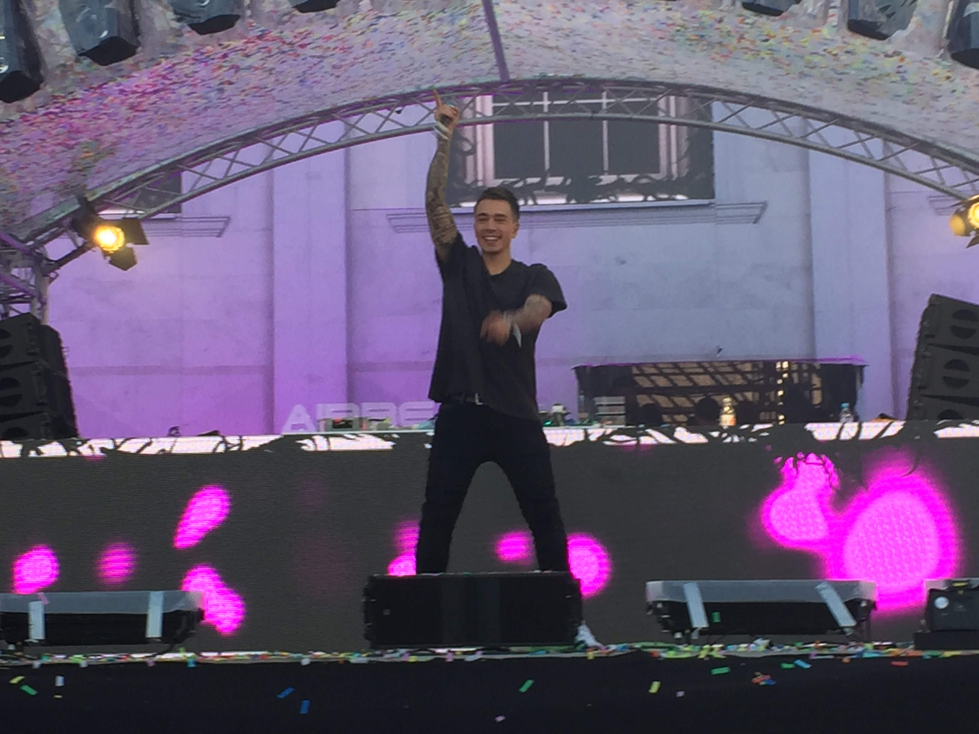 Headhunterz playing live at Airbeat One Festival in Neustadt Glewe, Germany.